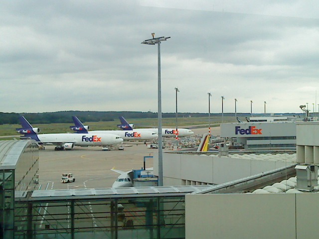 FedEx terminal at Cologne/Bonn Airport